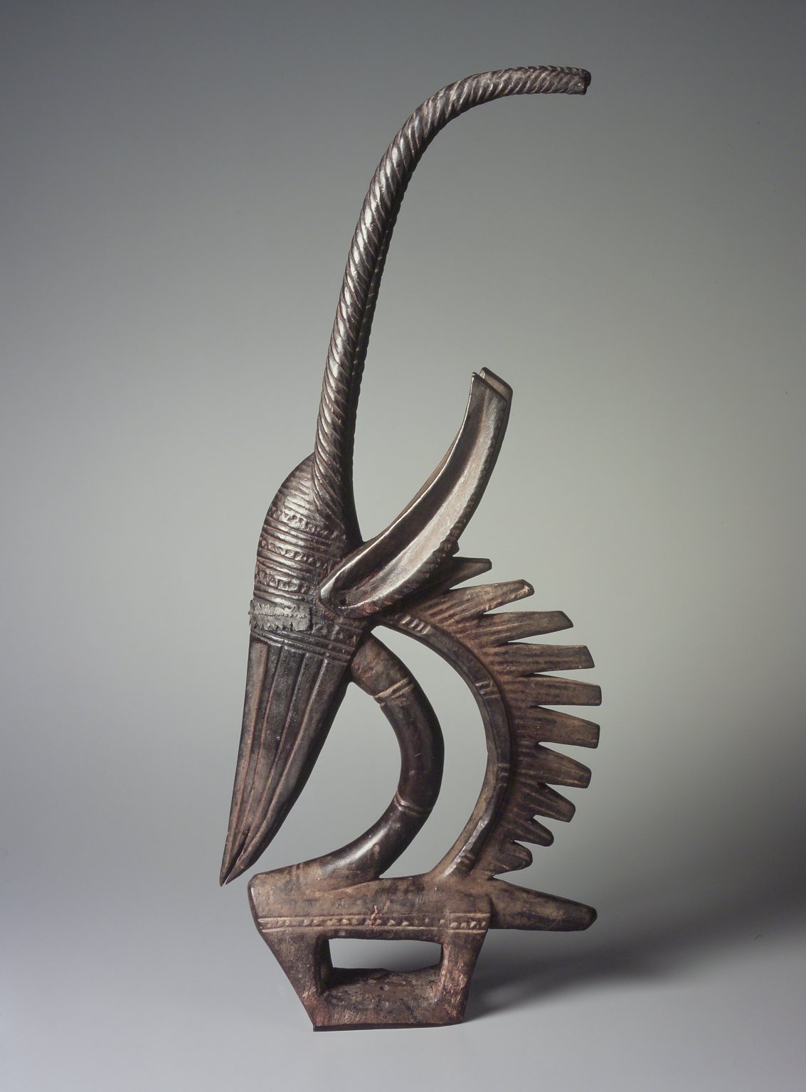 Chi Wara Headdress, Male